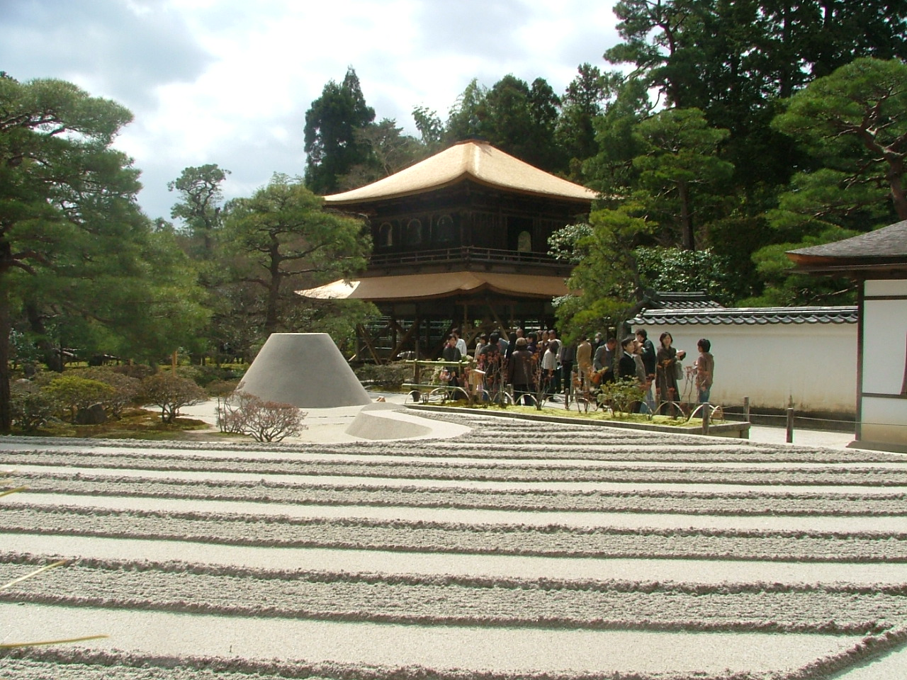 view of Ginkakuji temple with rock garden, in Kyoto